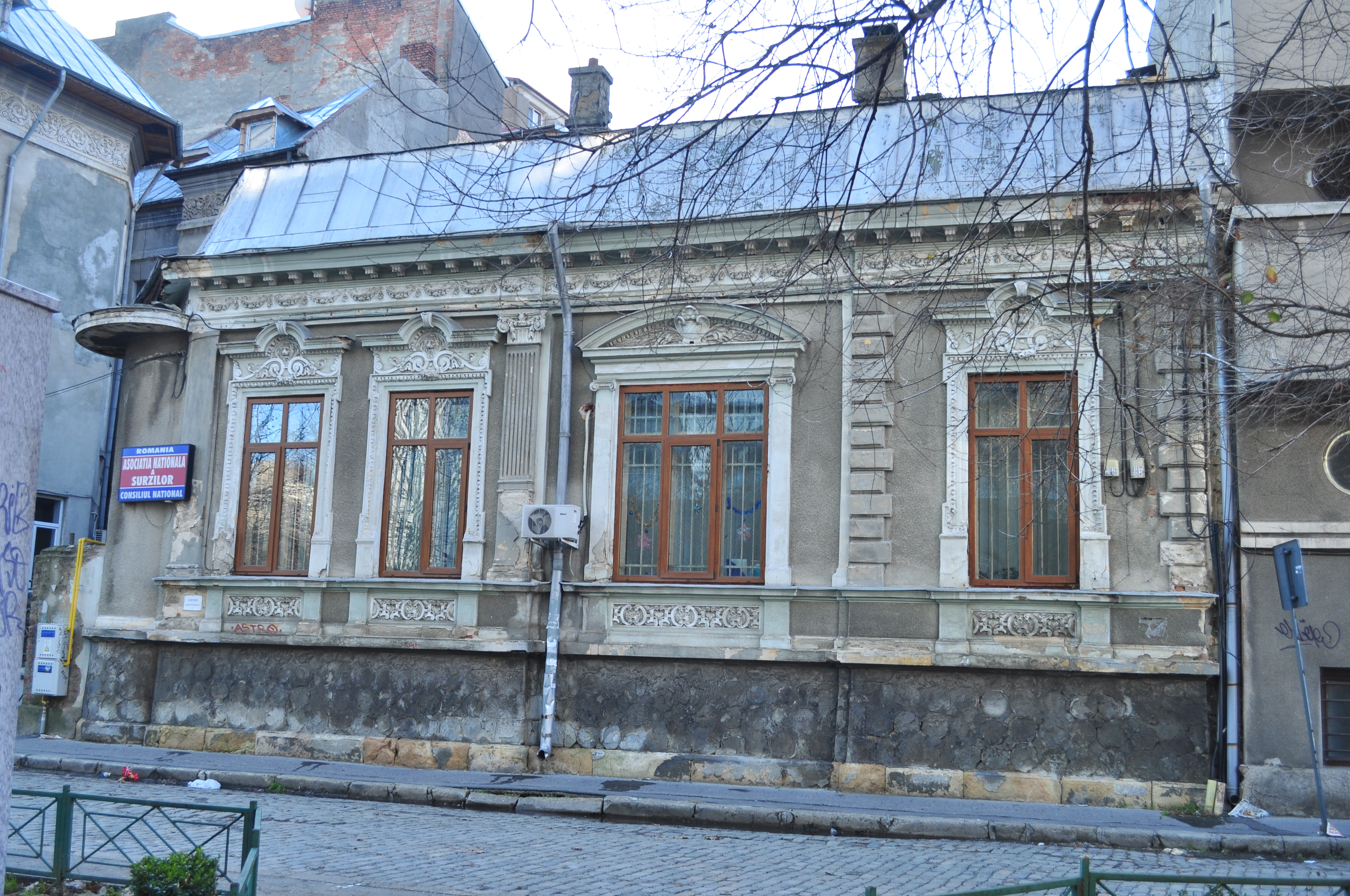 Asociația Națională a Surzilor din România (Romanian National Association of the Deaf), Strada Armand Călinescu, nr. 3, Bucharest, Romania.